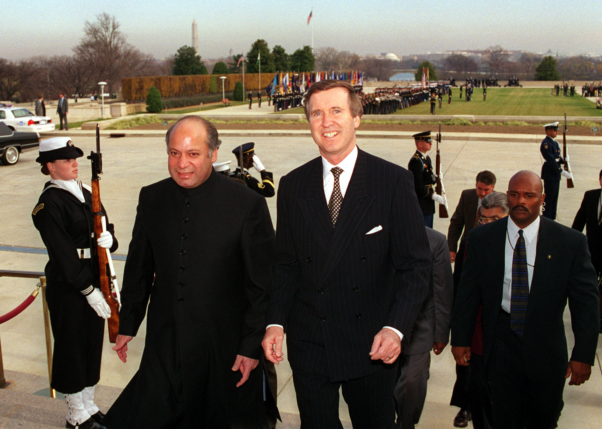 Secretary of Defense William S. Cohen (right) escorts visiting Prime Minister Nawaz Sharif of Pakistan.